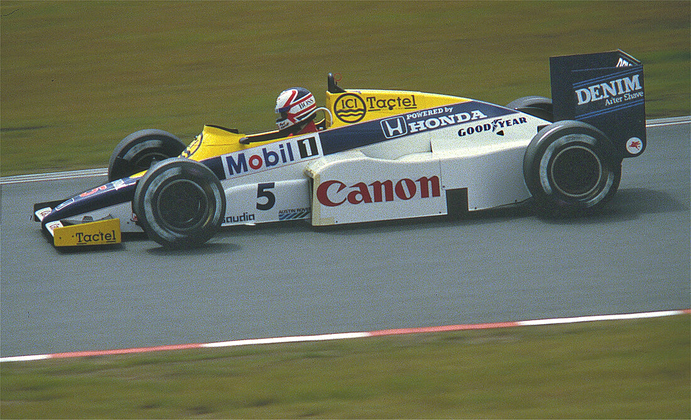 Nigel Mansell during practice for the German Grand Prix at Nürburgring